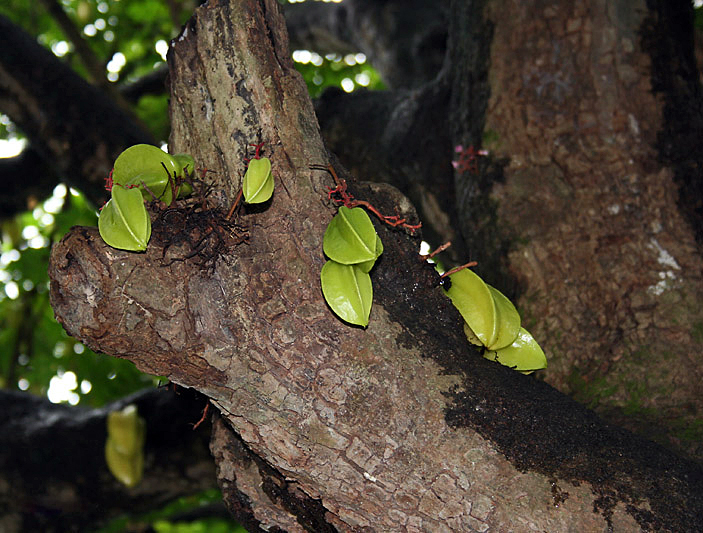 Kamrakh Averrhoa carambola in Kolkata, West Bengal, India.